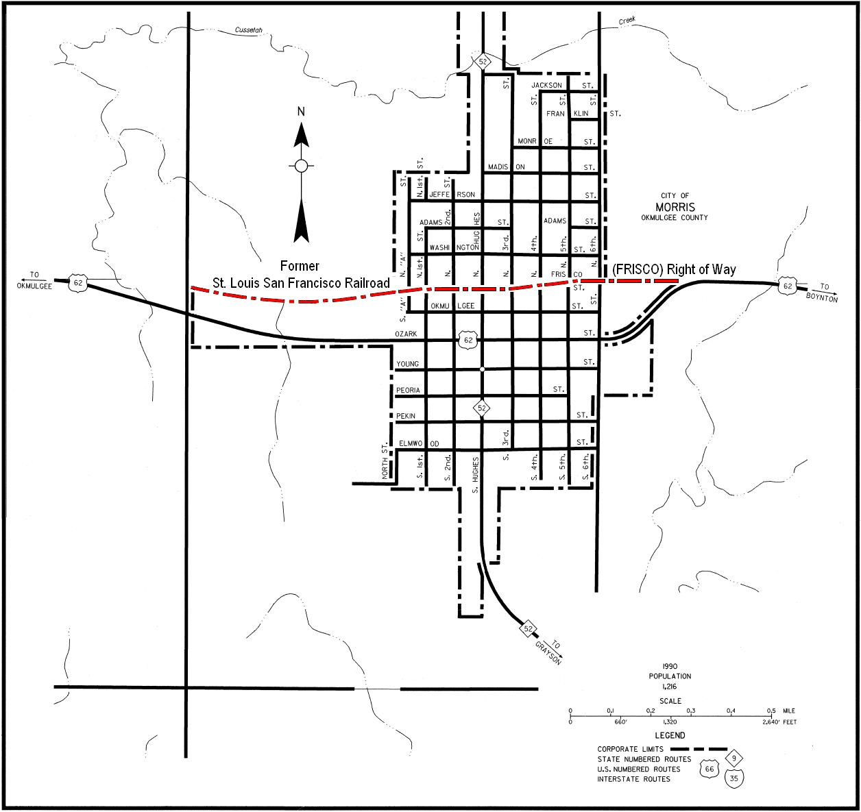 Morris OK map